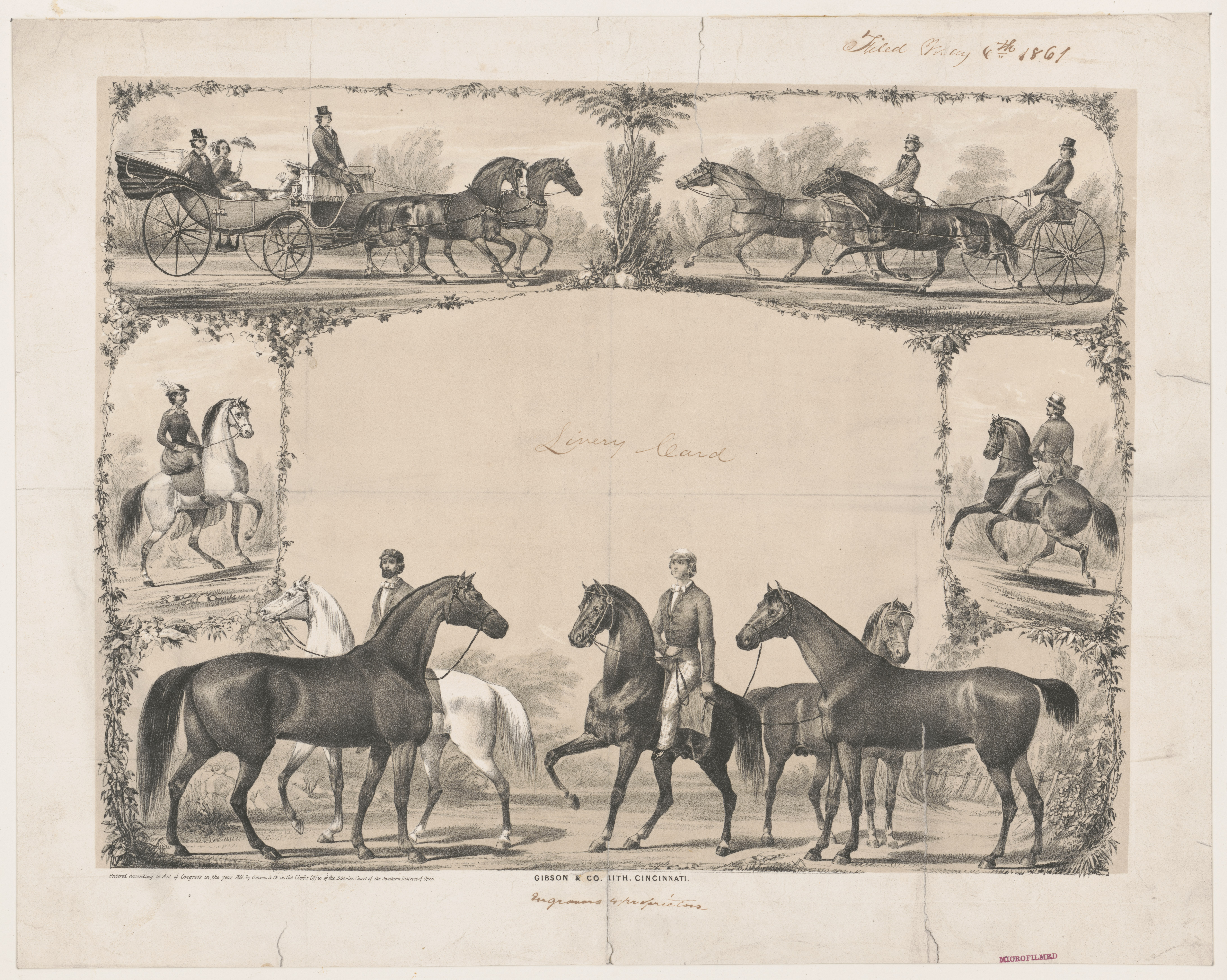 Title: Livery card Abstract: Print shows a blank "Livery Card" showing horses, male and female horseback and sidesaddle riders and types of horsedrawn carriages. Physical description: 1 print : tinted lithograph ; sheet 42.8 x 54.1 cm. Notes: Publication date based on copyright statement on item.; Title from item.; Inscribed in ink at top right: Filed May 6th 1861.; Inscribed in ink on center: Livery Card.; Inscribed in ink on bottom center: Engravers & proprietors.; Forms part of: Popular graphic art print filing series (Library of Congress).